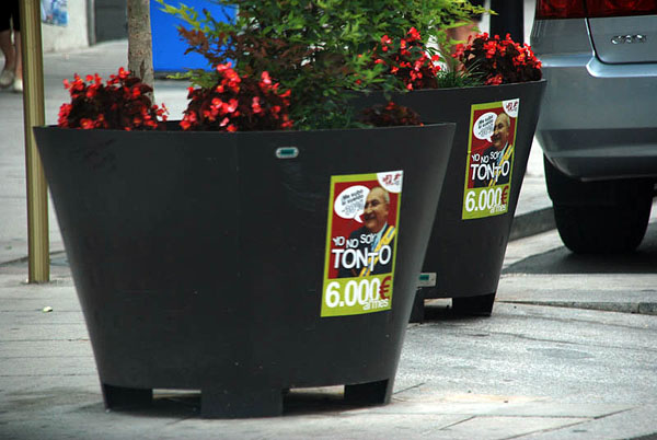 Stickers of the mayor of Canovelles José Orive from Alternativa Jove, Joves d'Esquerra Verda